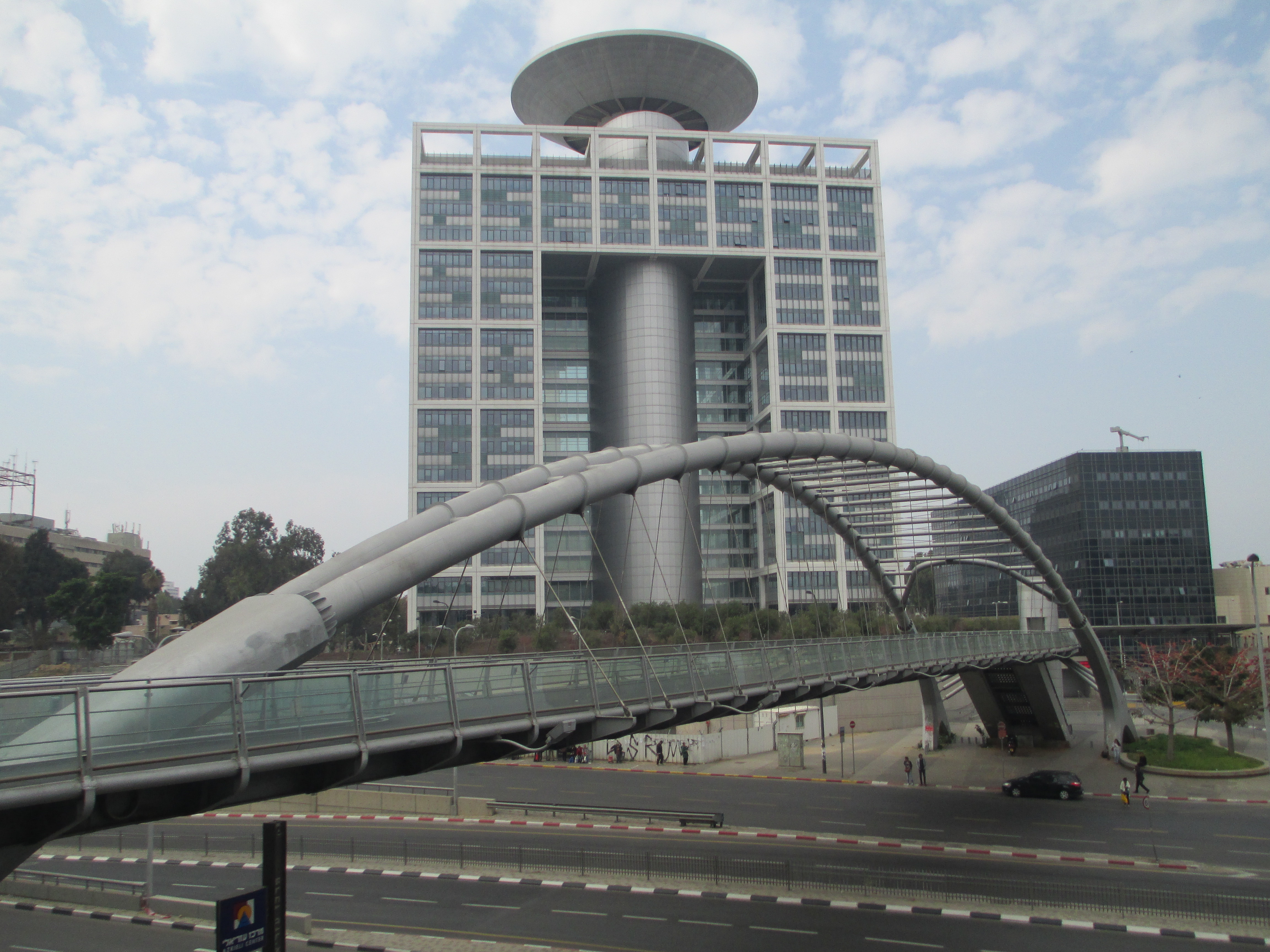 Azriely Bridge